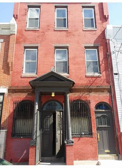 Congregation Shivtei Yeshuron-Ezras Israel, 2015 S 4th Street, Philadelphia, Pennsylvania, 19147 on March 28, 2016 (Photo by Morris Levin)